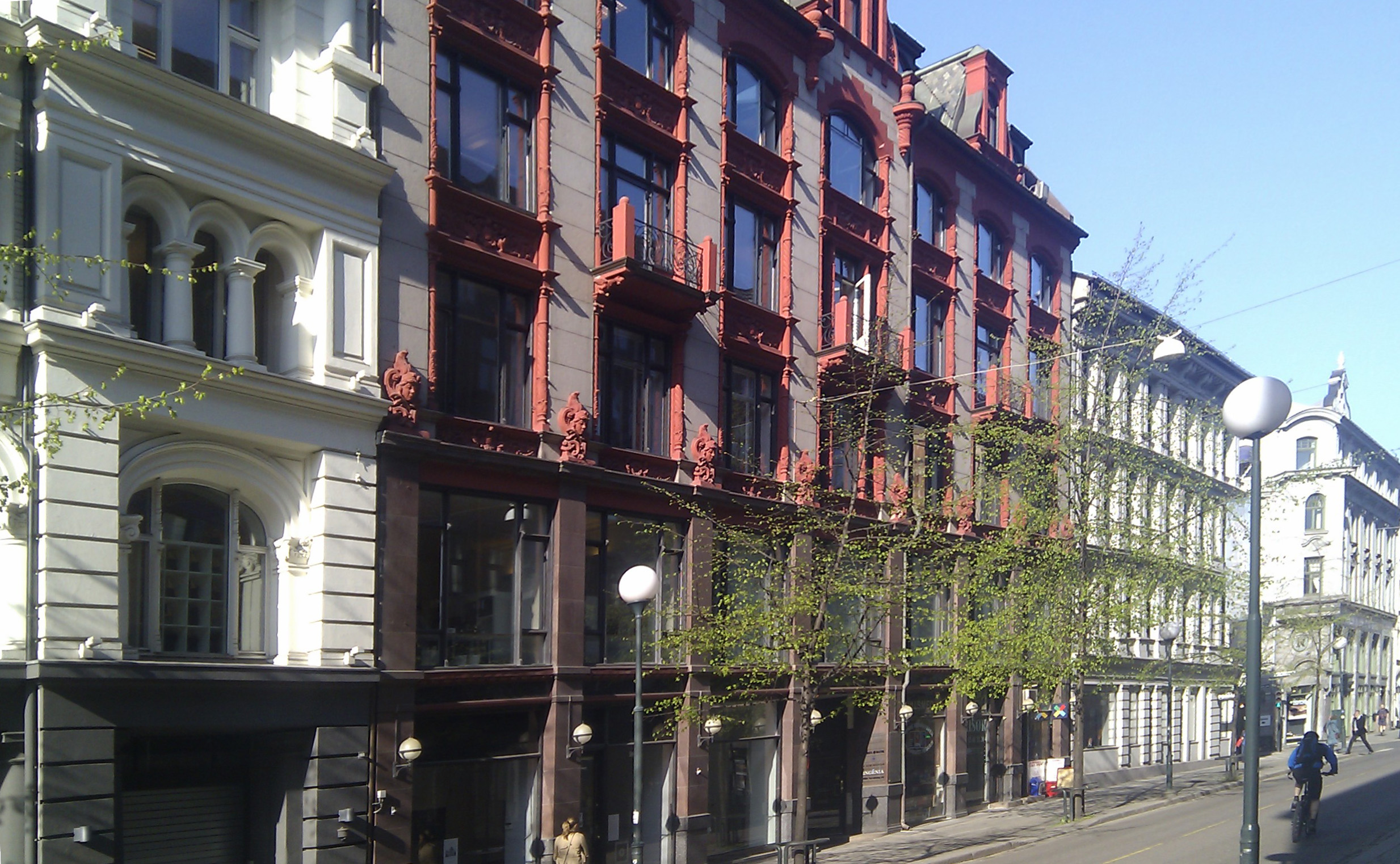 Rådhusgaten 20 in Oslo, Norway